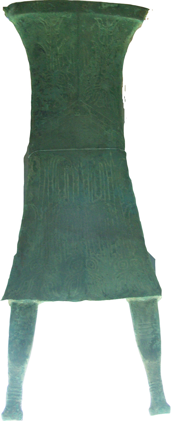 The QingTongRenShenXingQi of SanXingDui.